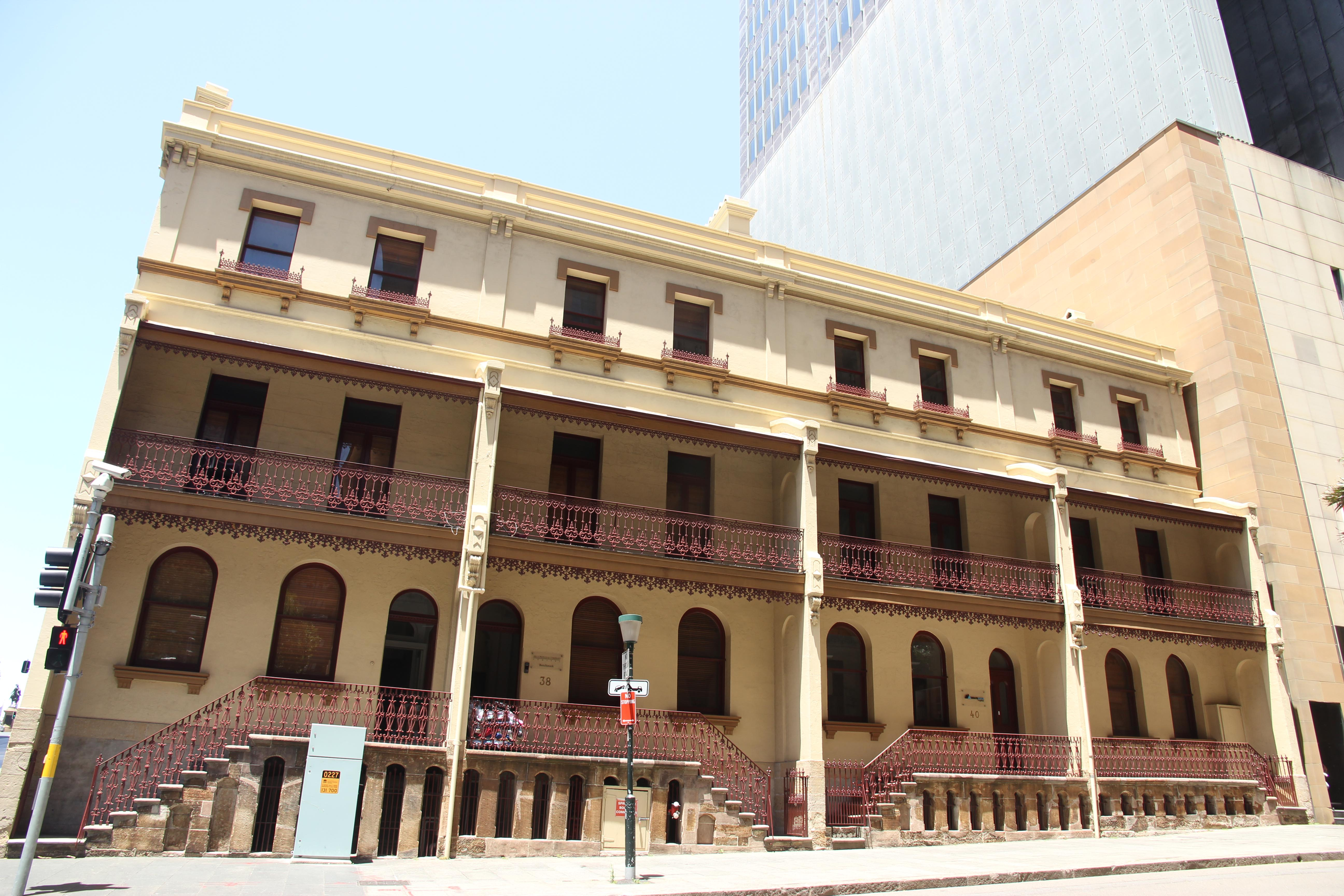 Young Street Terraces, located in Young Street, in the Sydney central business district, in the City of Sydney, New South Wales, Australia